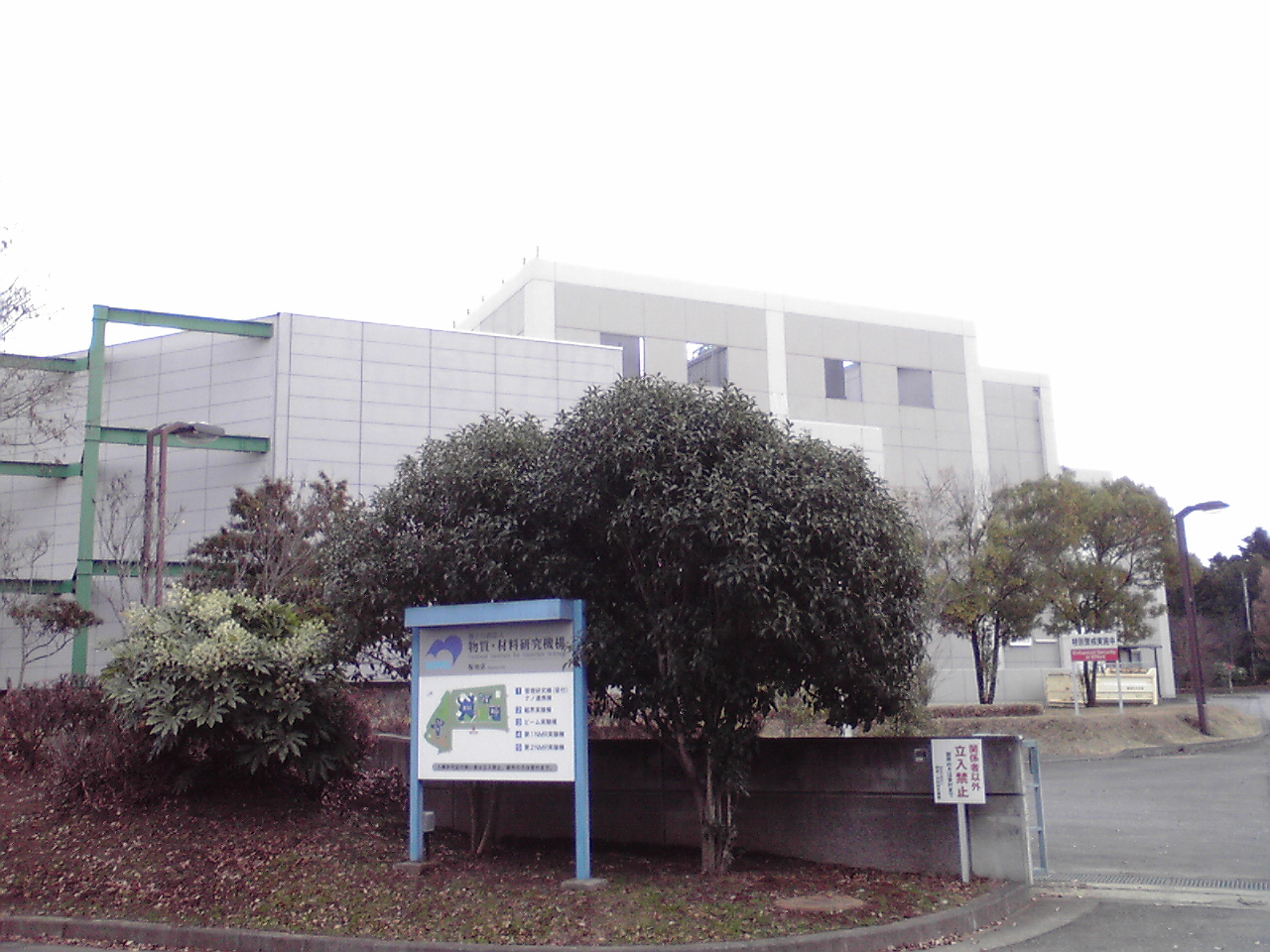 This is a laboratory of National Institute for Materials Science(NIMS) in Tsukuba, Ibaraki, Japan.